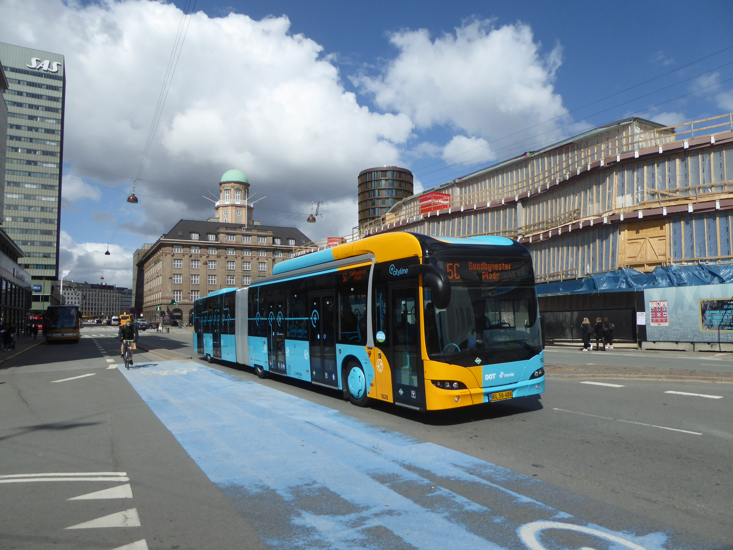 Movia bus line 5C on Bernstorffsgade in Vesterbro in Copenhagen on the first day of the line. The building with the tower behind the bus is Axelborg.